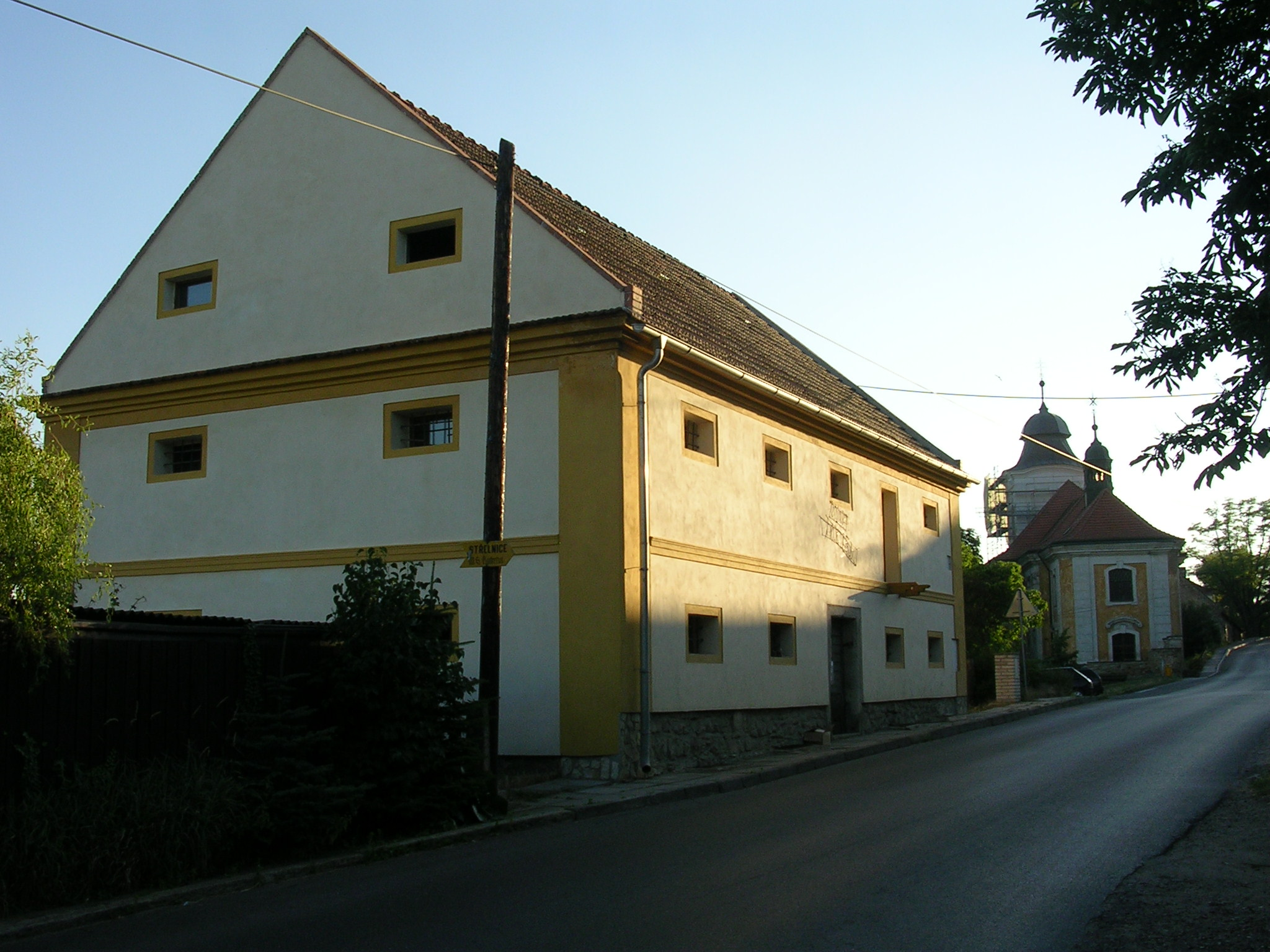 Únětice, Prague-West District, the Czech Republic.